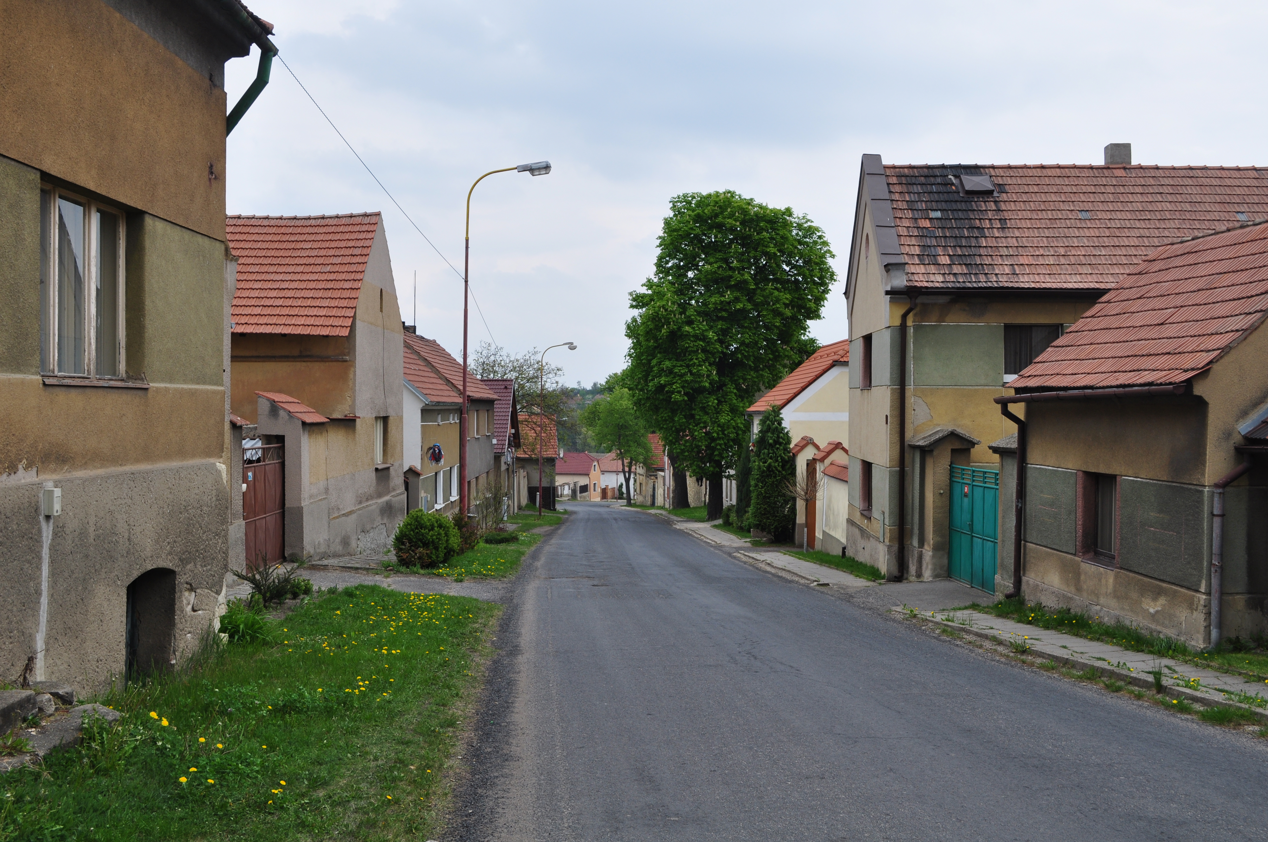 Stradonice - Main street